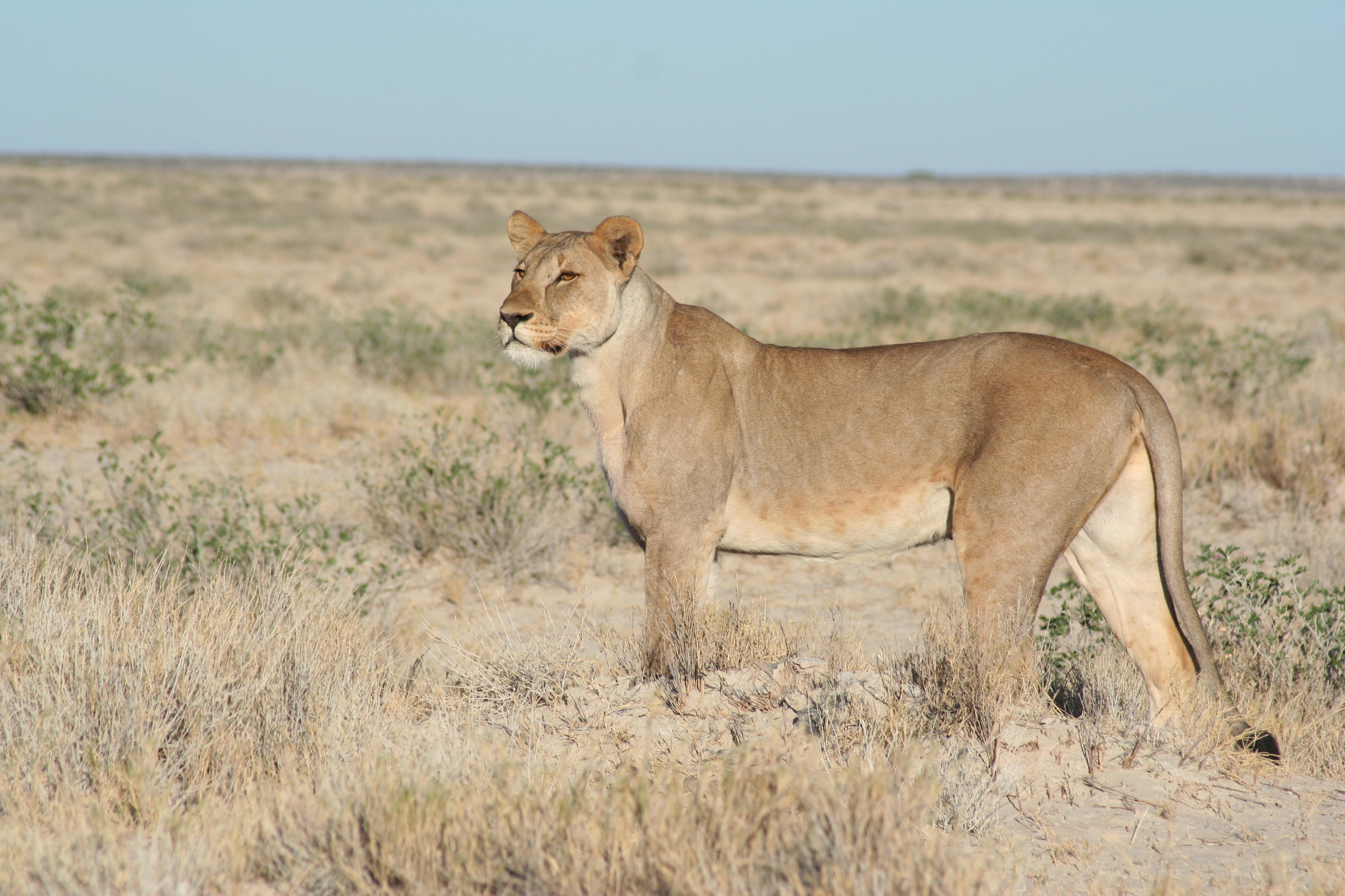 Taken in Etosha National Park, NamibiaFemale lion on the prowl